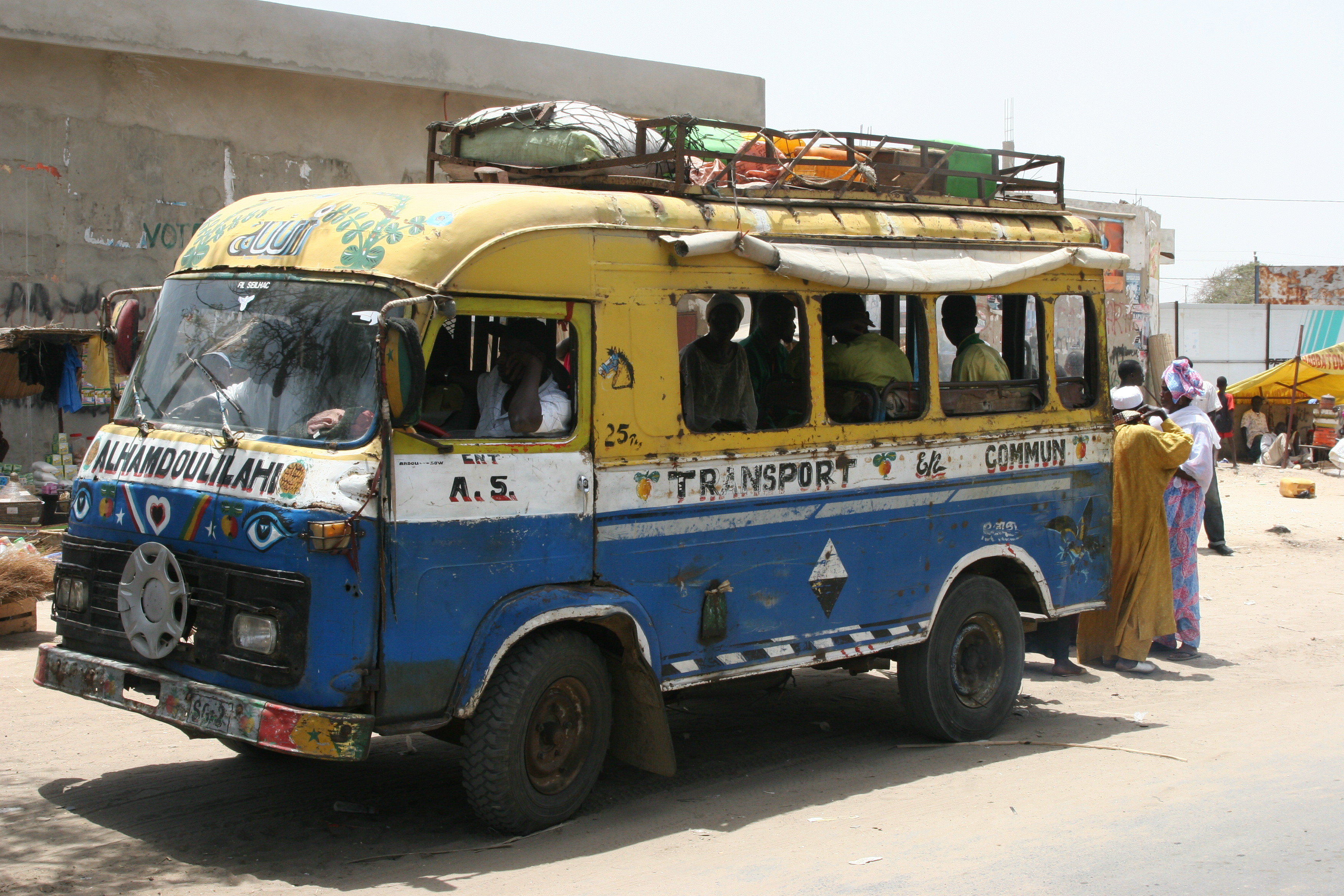 The famous Car Rapide, Senegal's most commonly used form of transportation, mainly used in Dakar and St. Louis, the former capital of the country.The cars are recognized by their blue / yellow colours and the text 'Transport Commun' and 'Alhamdoulilahi' (thanks to God).